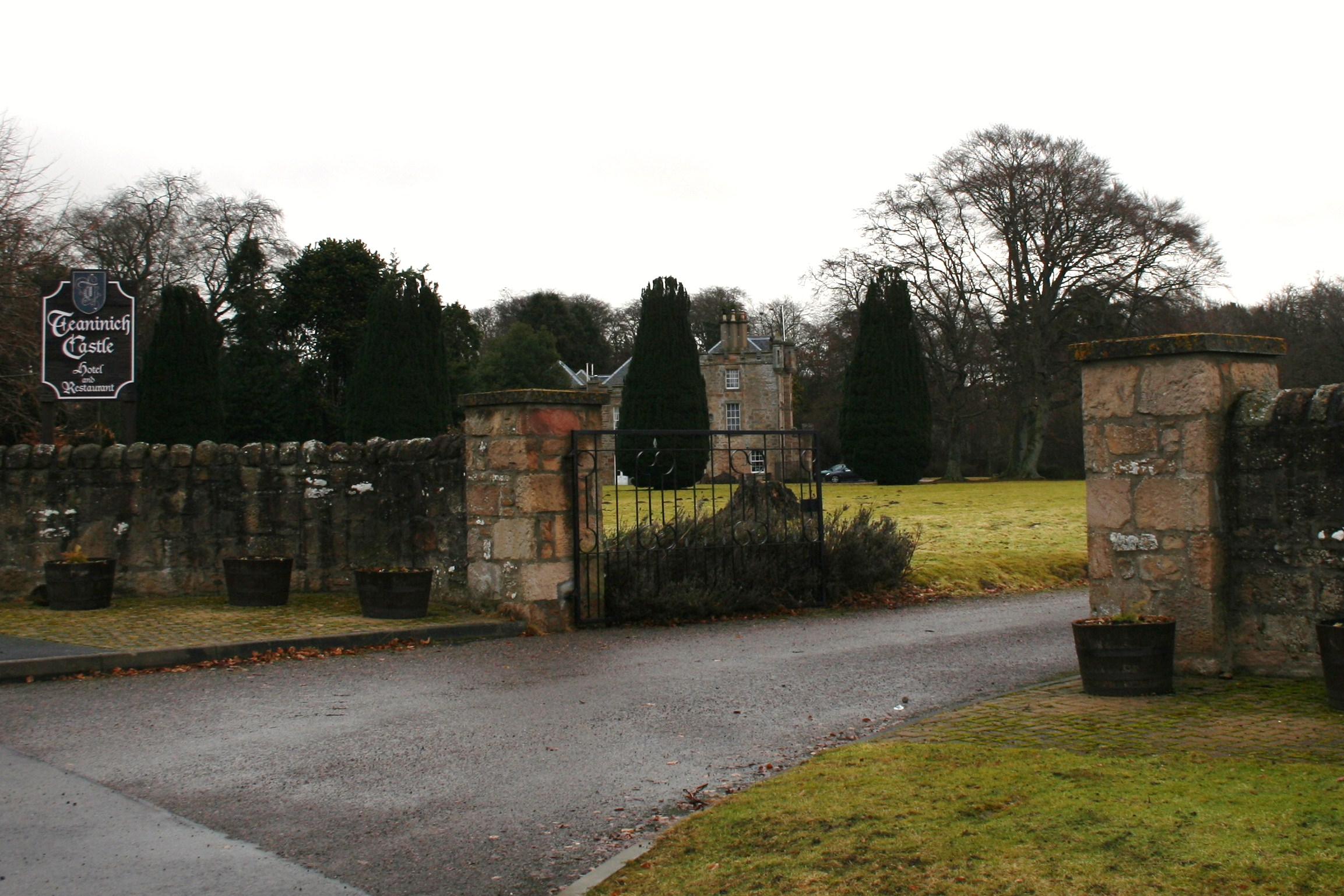 Teaninich Castle Hotel Set by the industrial estate Teaninich is now a hotel betweeb Alness and the A9.